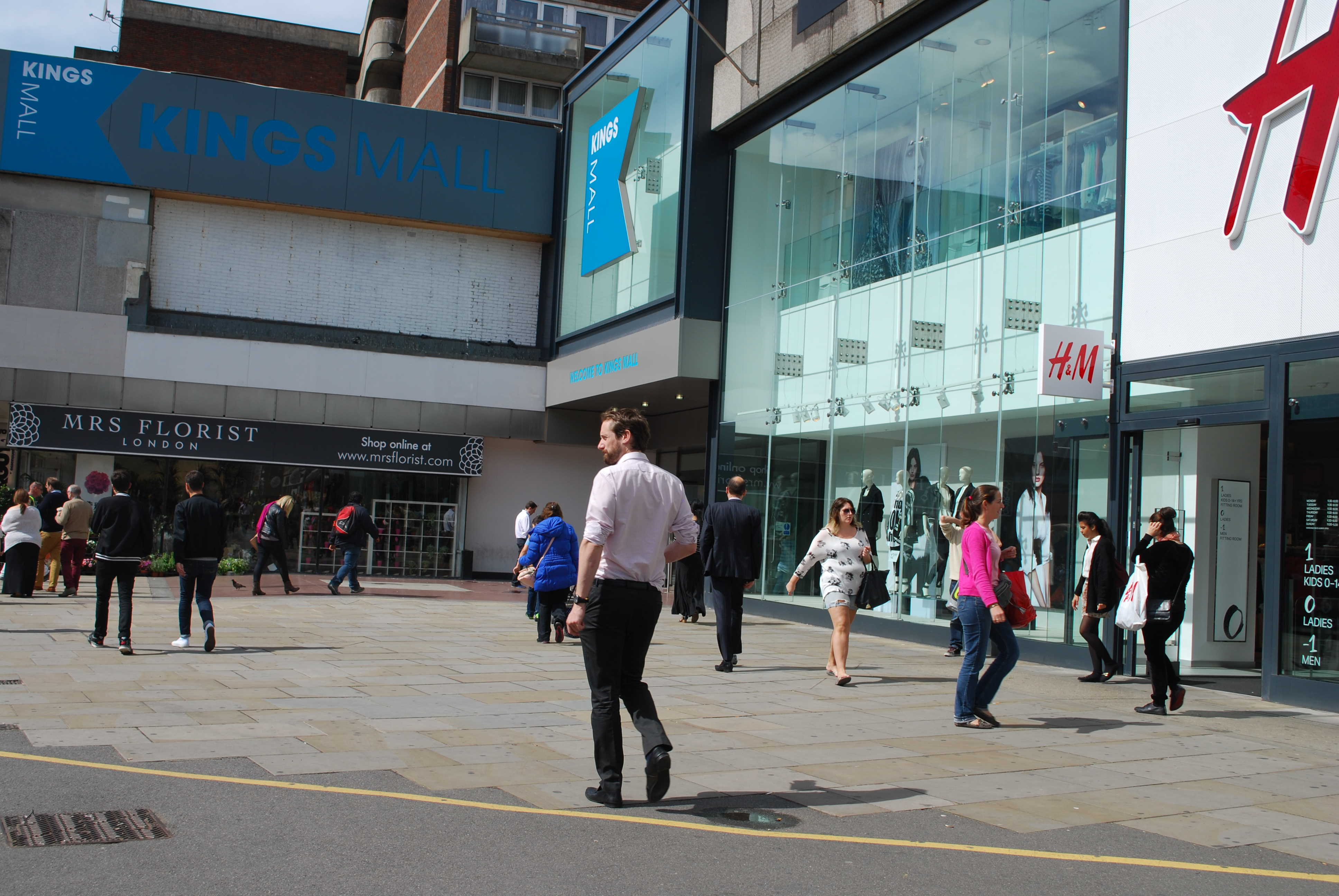 East Entrance of Kings Mall Shopping Centre on King Street, Hammersmith, 2013, following 2013 refurbishment